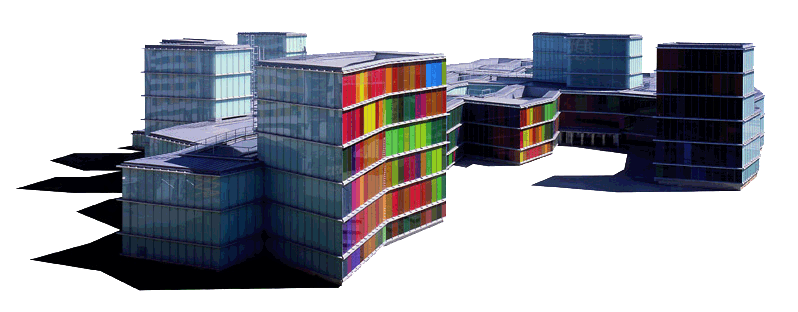 Aerial view of MUSAC in León Spain, by Mnasilla+Tuñón